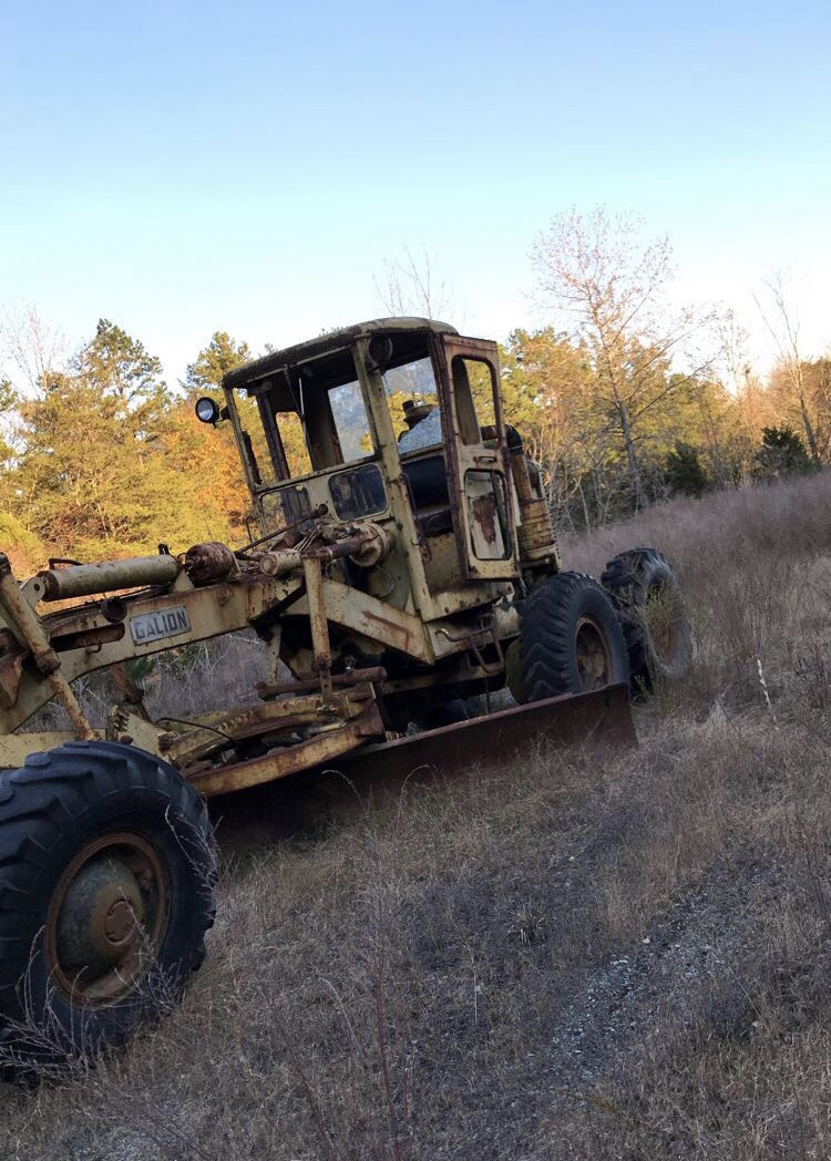 Abandoned Galion Model 118 highway grader in Rural North Carolina